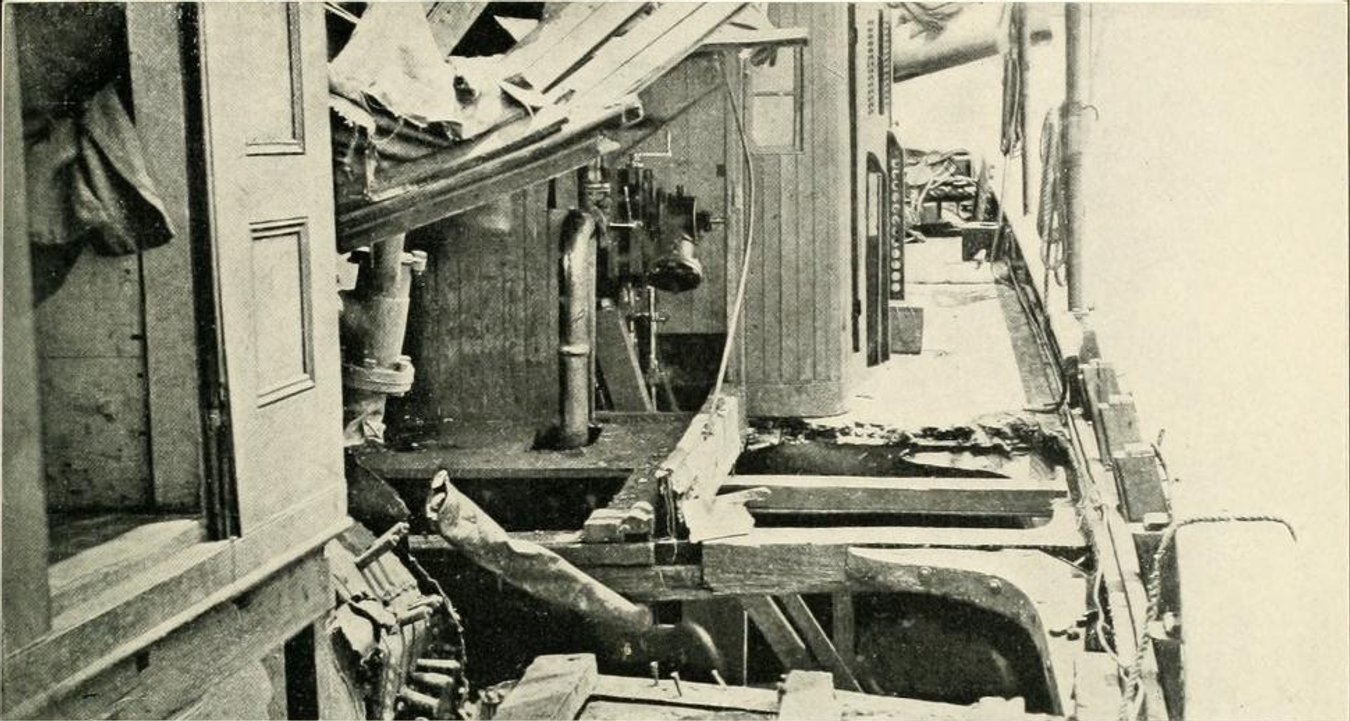 The deck of the CSS Teaser. Photograph taken on board by Mathew Brady, soon after she was captured on the James River, Virginia, on 4 July 1862. This view shows damage amidships from the boiler explosion that led to her capture. It probably looks aft on the port side, with the muzzle and carriage of her 32-pounder gun in the distance. Collections of the Library of Congress.